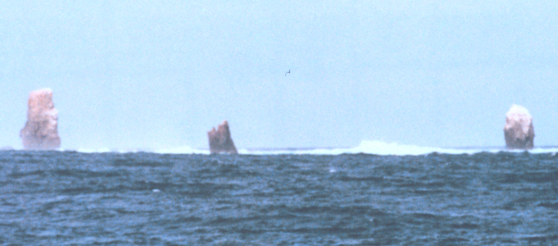 Alijos Rocks off the Mexican coast, view from the East